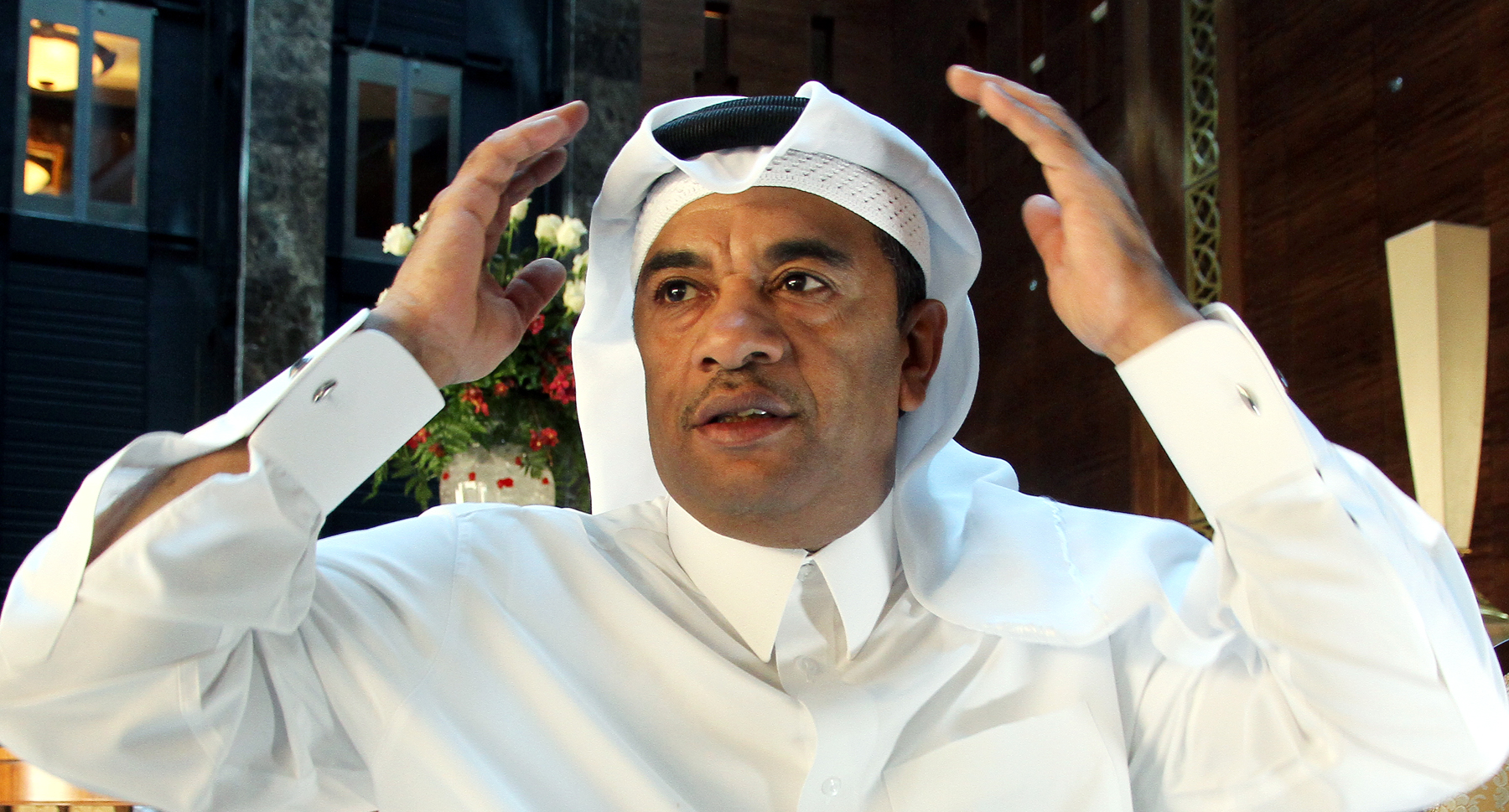 Former Qatar football international Badr Bilal speaks during a private interaction with Doha Stadium Plus. Picture by Vinod Divakaran